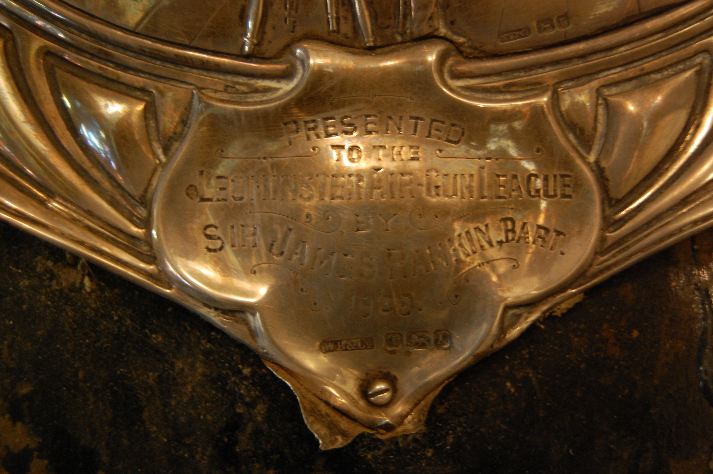 Close-up of a trophy in Leominster Museum. the inscription reads: Presented to the Leominster Air-Gun League by Sir James Rankin, Bart. 1909 below which are hallmarks. The inscription refers to Sir James Rankin, 1st Baronet.